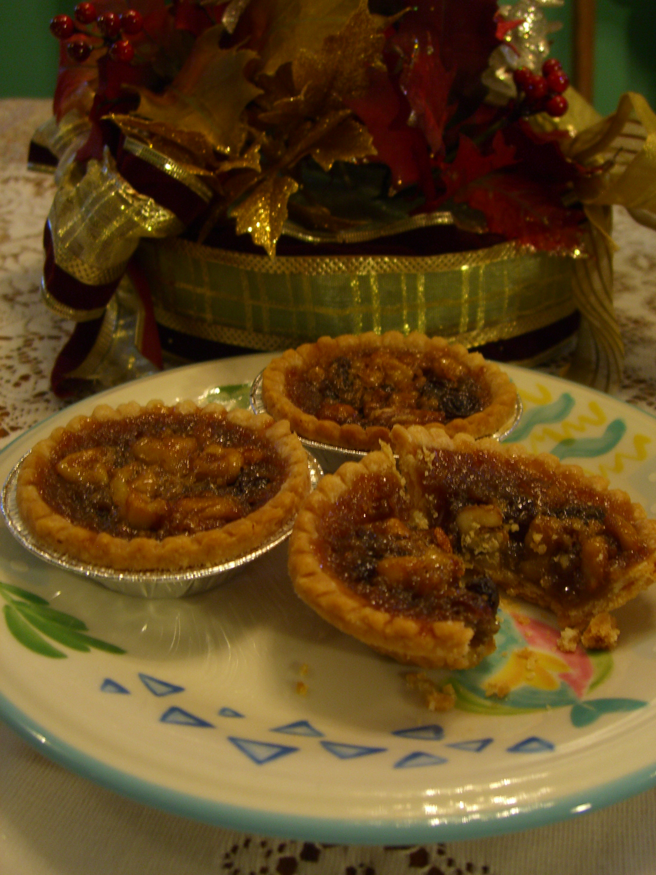 Three butter tarts on a plate